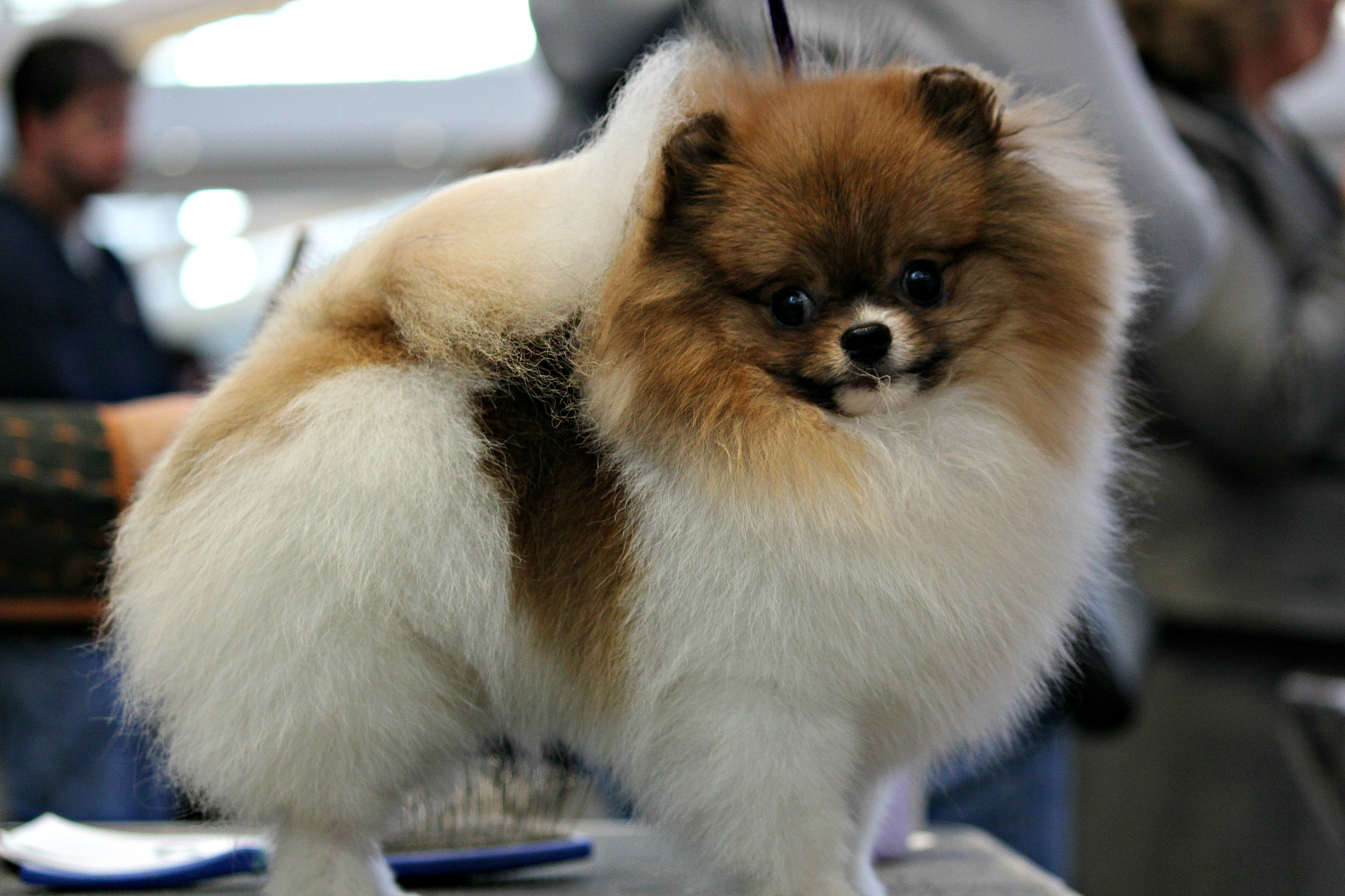 One Particolor Pomeranian dog at 2010 PA Kennel Assoc. Dog Show